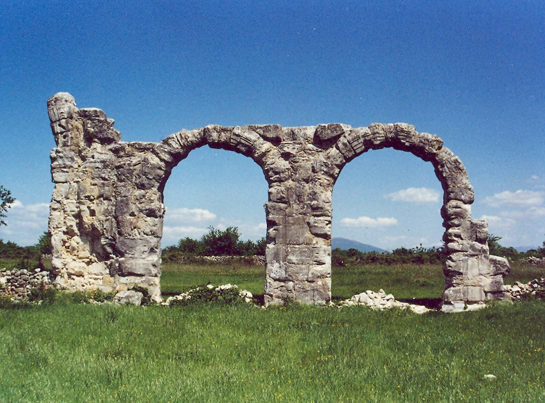 Burnum - arches Principia.